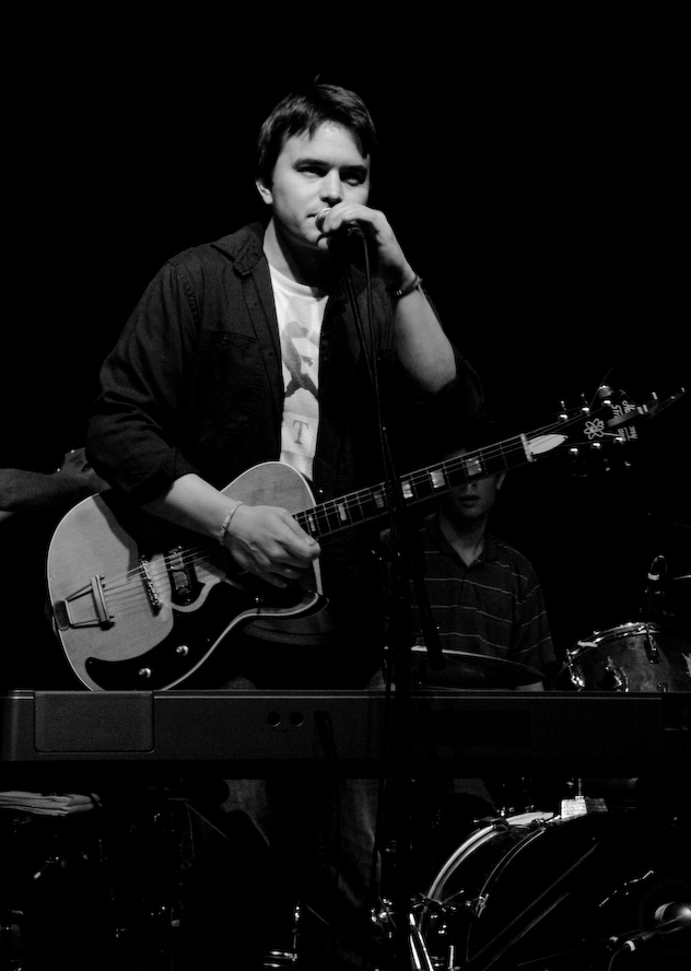 Spencer Krug, mastermind of Sunset Rubdown. 2009/04/24 - Krems/Austria.